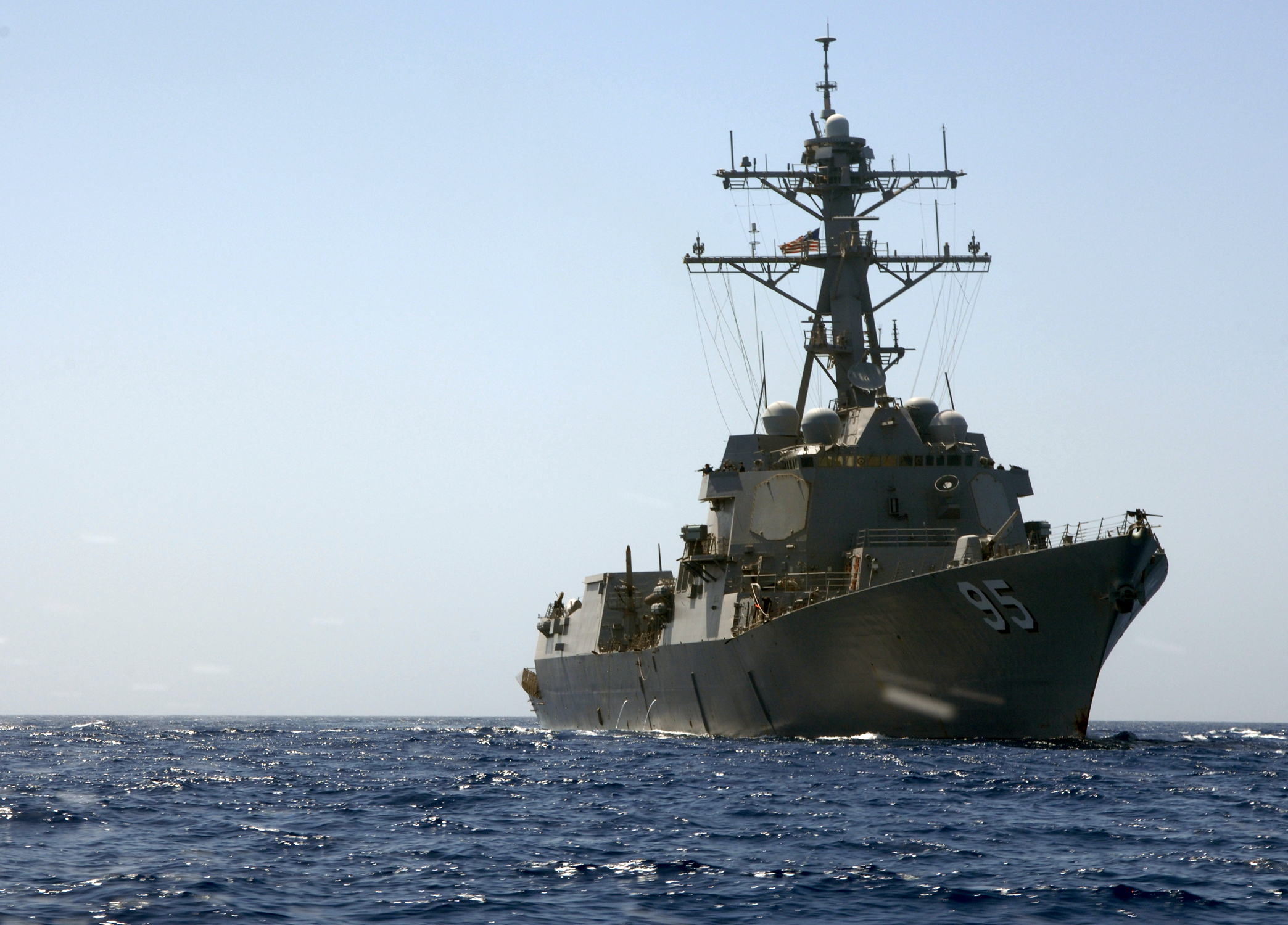 RED SEA (June 7, 2009) The guided-missile destroyer USS James E. Williams (DDG 95) conducts operations in the Red Sea. James E. Williams is deployed supporting maritime security operations in the U.S. 5th fleet area of responsibility. (U.S. Navy photo by Mass Communication Specialist 2nd Class Laura A. Moore/Released)